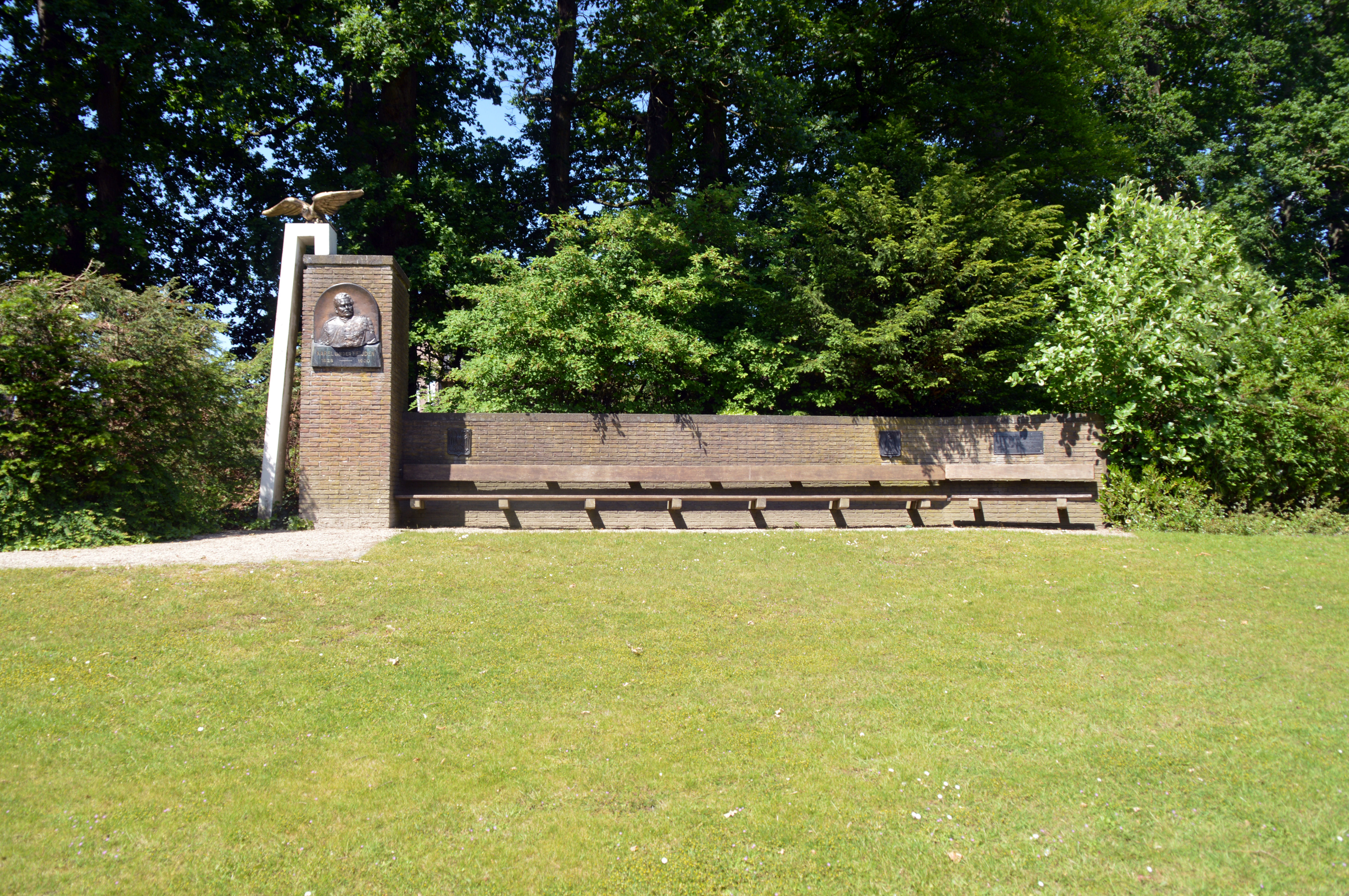 Karel van der Heijden bench Bronbeek Arnhem 1963